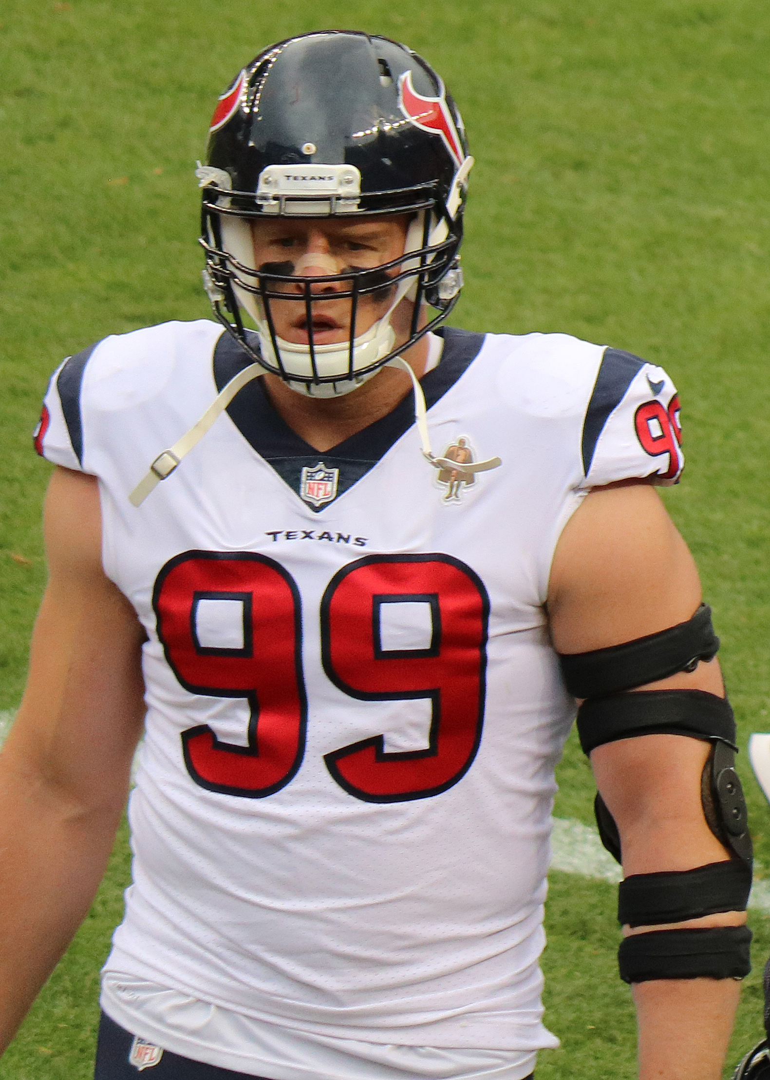 J.J. Watt, a National Football League player.